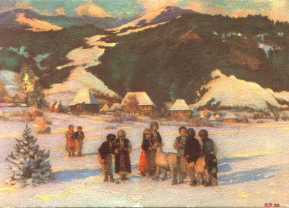 Young Croats, inhabitants of one village in Bosnia, winter